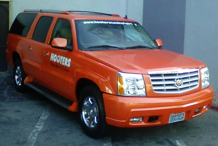 2003-2006 Cadillac Escalade ESV Hooters photographed in Las Vegas, Nevada, USA.